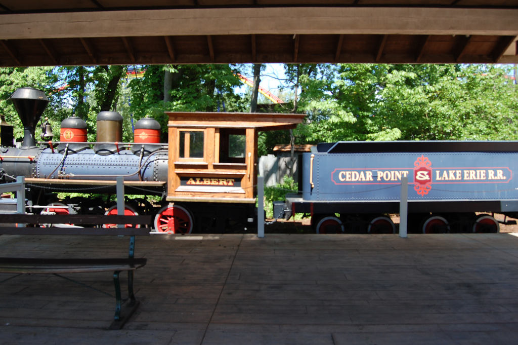 Cedar Point & Lake Erie Railroad Albert train.